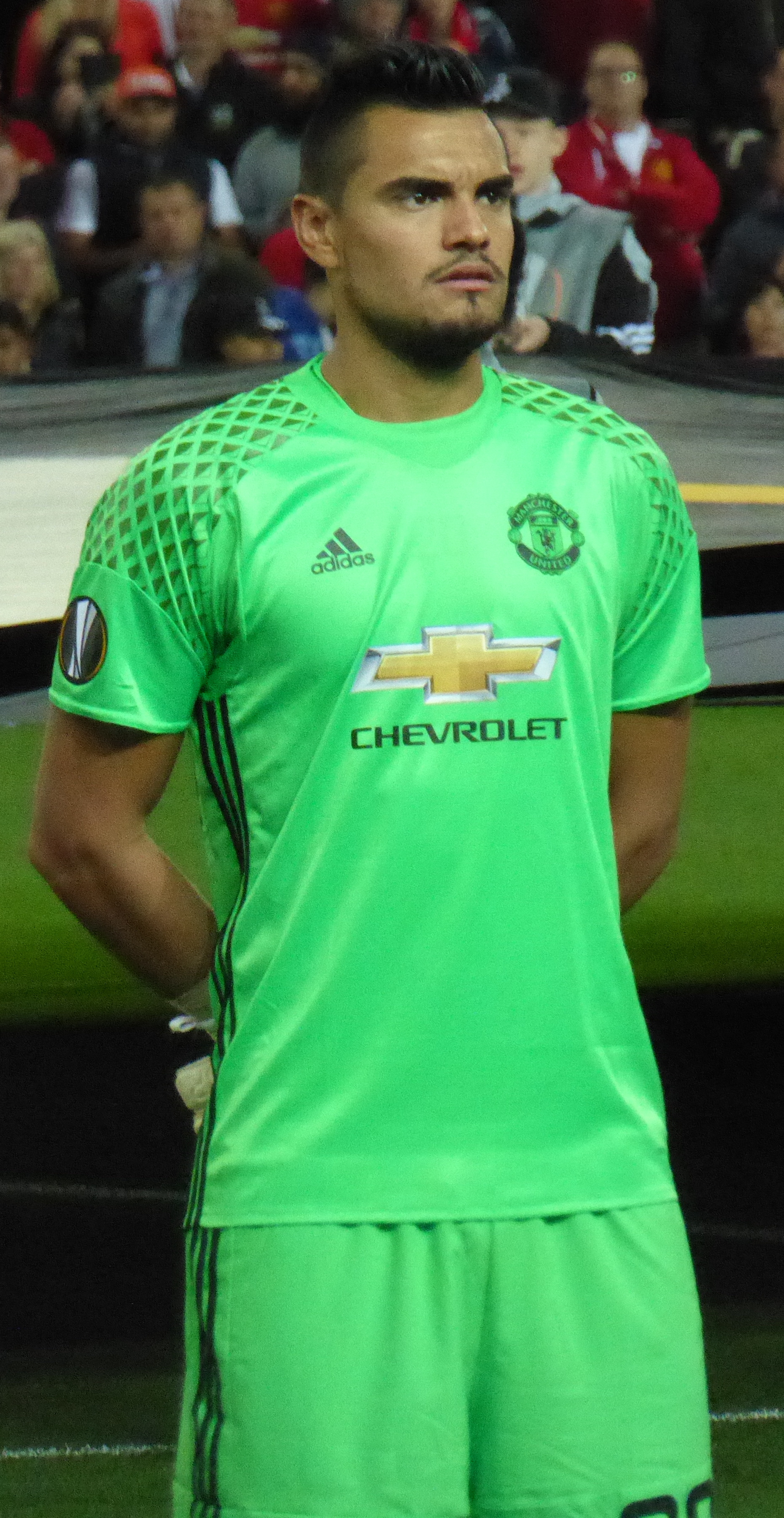 Sergio Romero